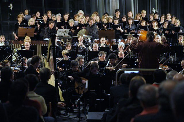 Photograph taken by a relative of mine, during a concert by Mike Oldfield, the orchesta and chorrus of the city of Bilbao, Basque Country.